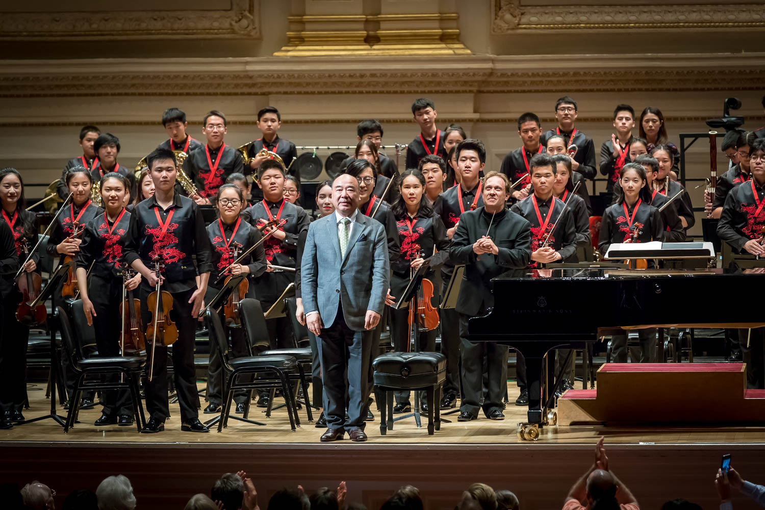 Zhou Long with Ludovic Morlot and the National Youth Orchestra of China at Carnegie Hall receiving applause after performing "The Rhyme of Taigu".